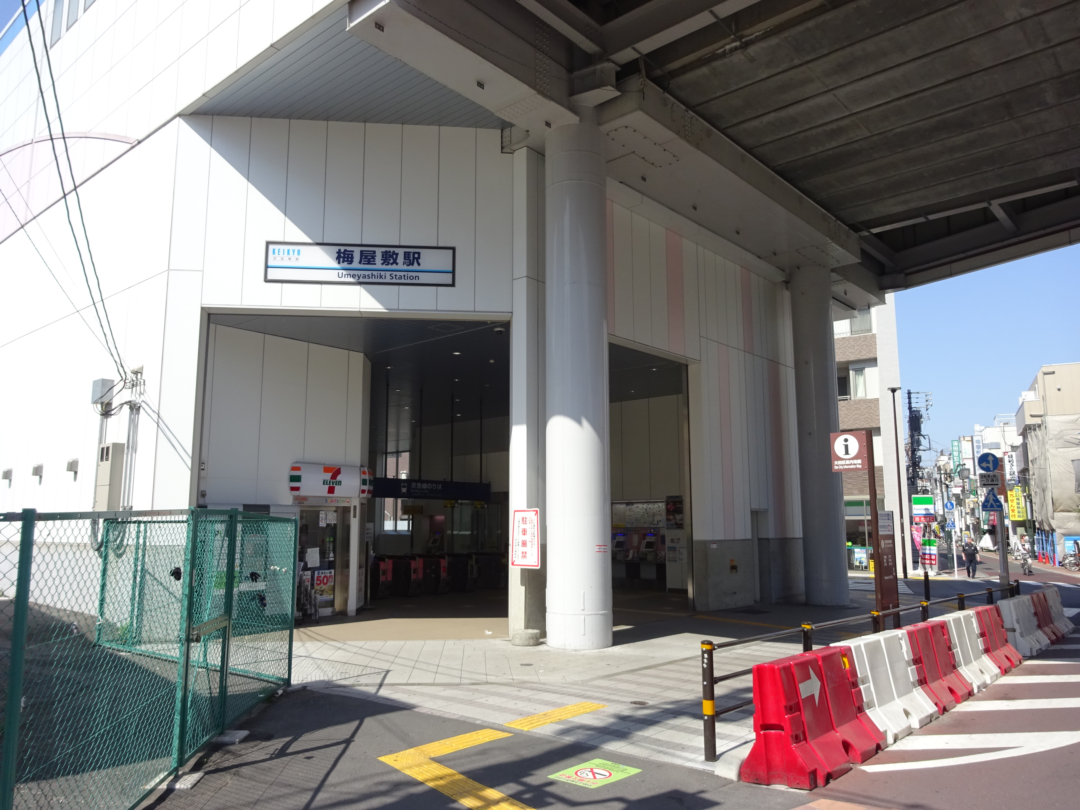 Umeyashiki Station